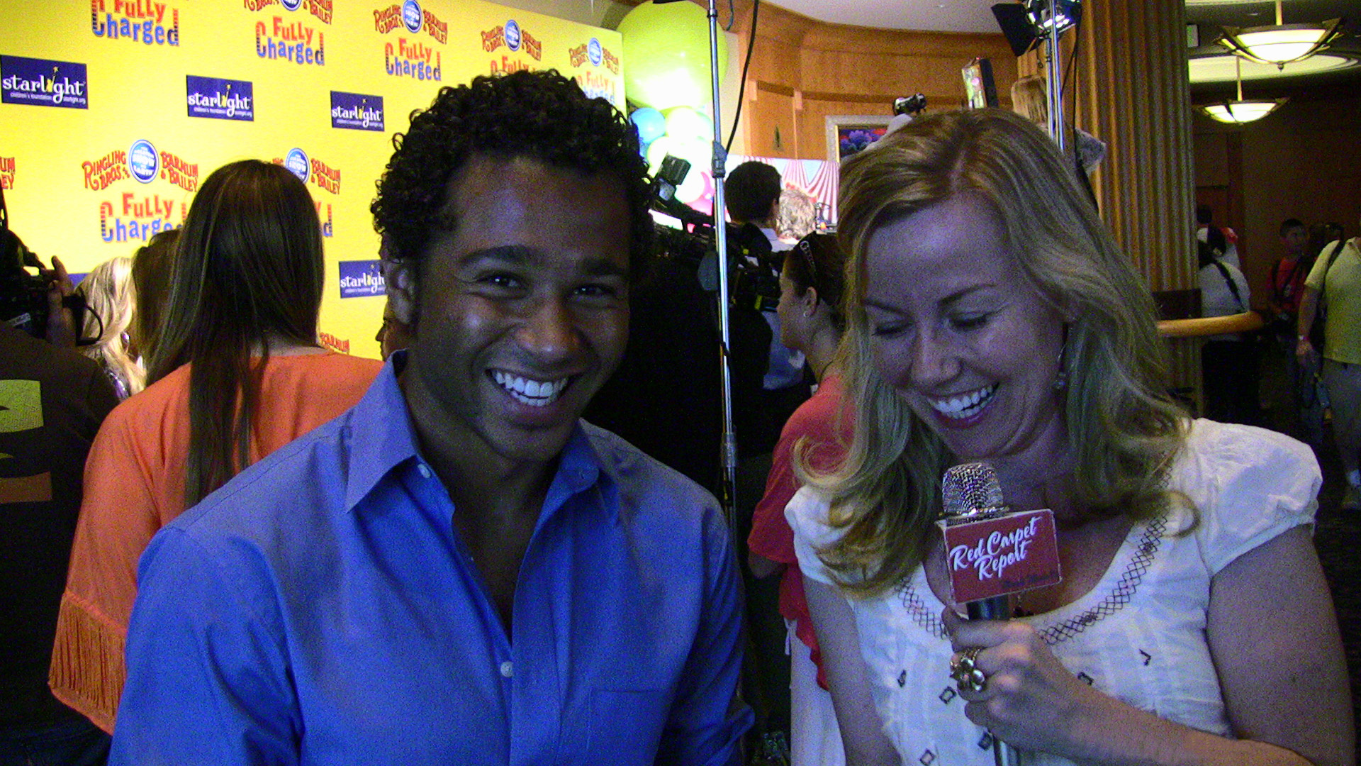 Corbin Bleu at the "Fully Charged" Red Carpet Ringling Bros. & Barnum & Bailey Circus.